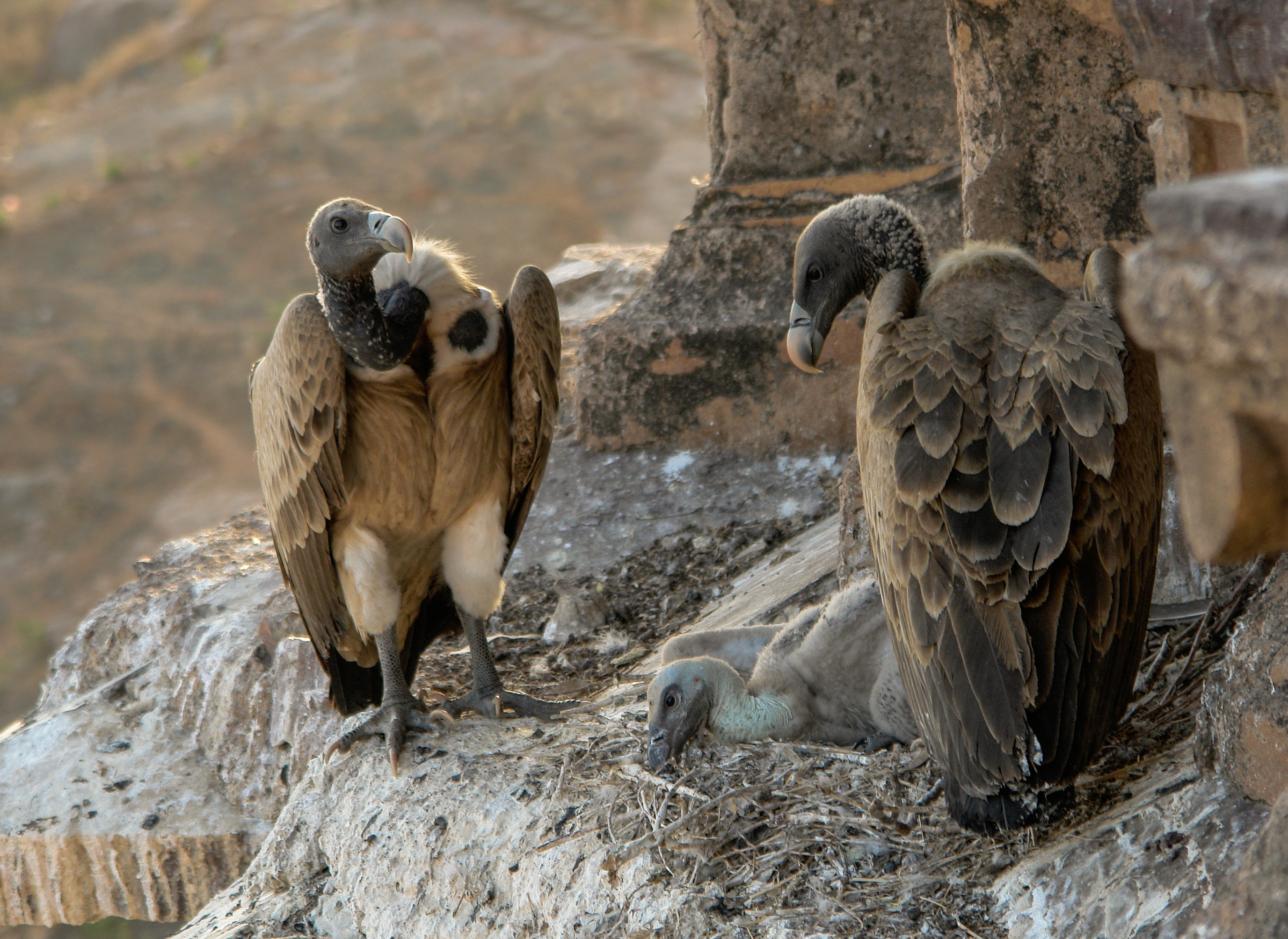 Vultures in the nest (Gyps indicus), on the tower of the Chaturbhuj Temple, Orchha, Madhya Pradesh, India.